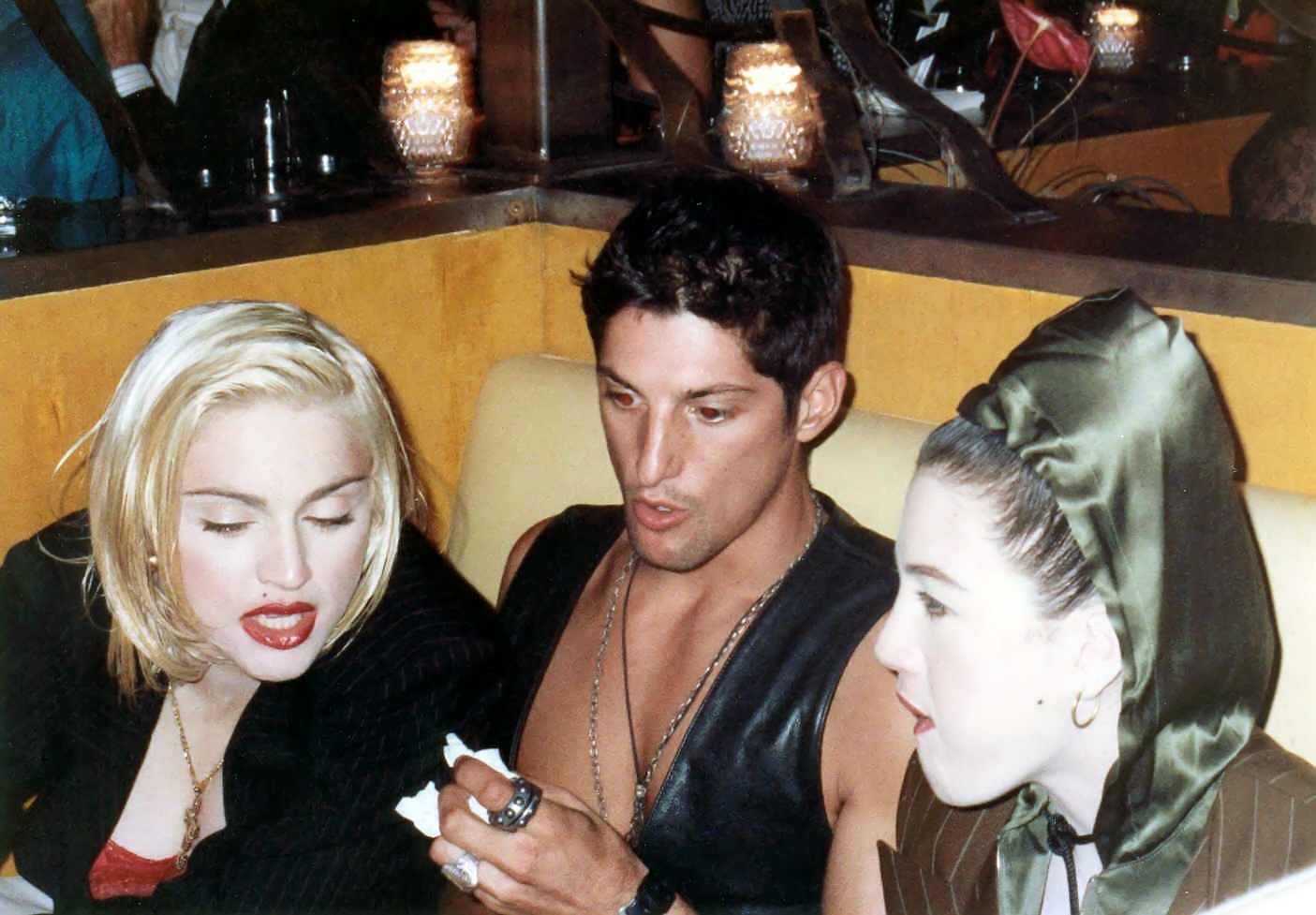 Singer Madonna (left) in September 1990 with Tony Ward (center), and one of Madonna's dancers, Donna Delory at the AIDS Project Los Angeles benefit concert